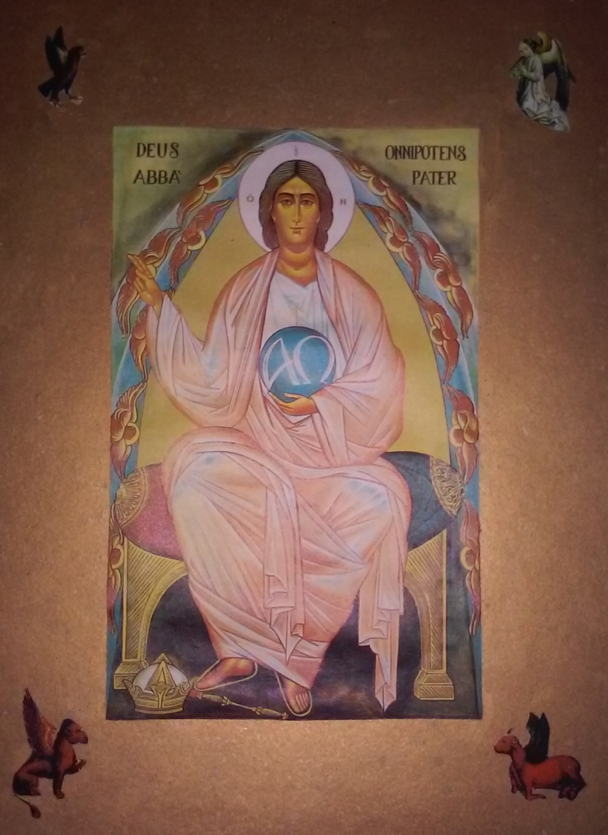 the Ikon of God the Father, the reproduction of the one of ikons painted by vision of s. Eugenia E. Ravasio. I am owner and performer of this copy.